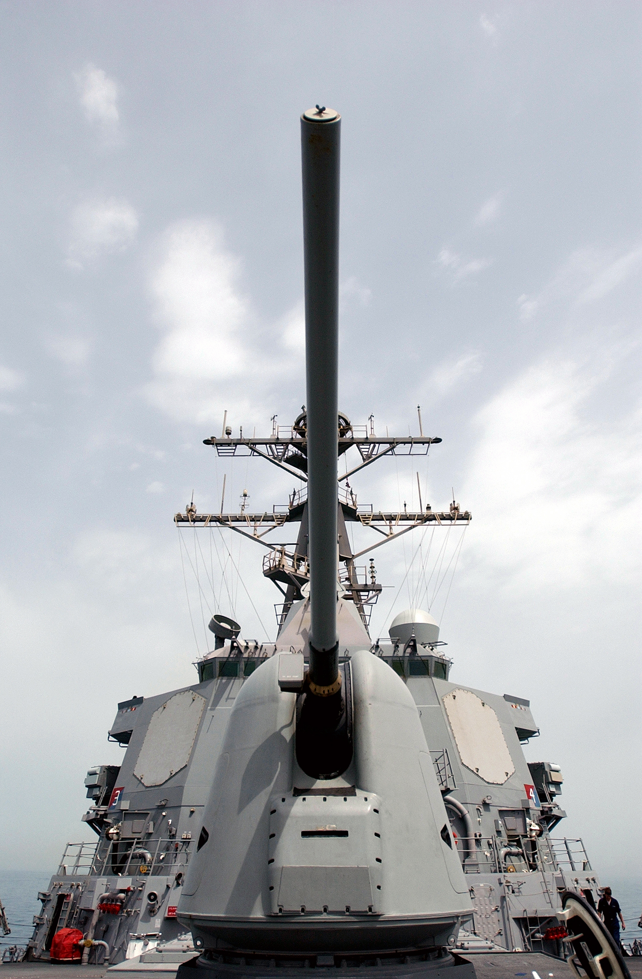 Central Command Area of Responsibility (Apr. 8, 2003) -- Aboard the U.S. Navy guided missile destroyer USS Donald Cook (DDG 75), a 54 caliber MK-45 five-inch lightweight gun provides surface combatants accurate naval gunfire against fast, highly maneuverable surface targets, air threats and shore targets during amphibious operations. Donald Cook is deployed conducting missions in support of Operation Iraqi Freedom. Operation Iraqi Freedom is the multi-national coalition effort to liberate the Iraqi people, eliminate Iraq's weapons of mass destruction and end the regime of Saddam Hussein. U.S. Navy photo by Chief Journalist Alan J. Baribeau. (RELEASED)